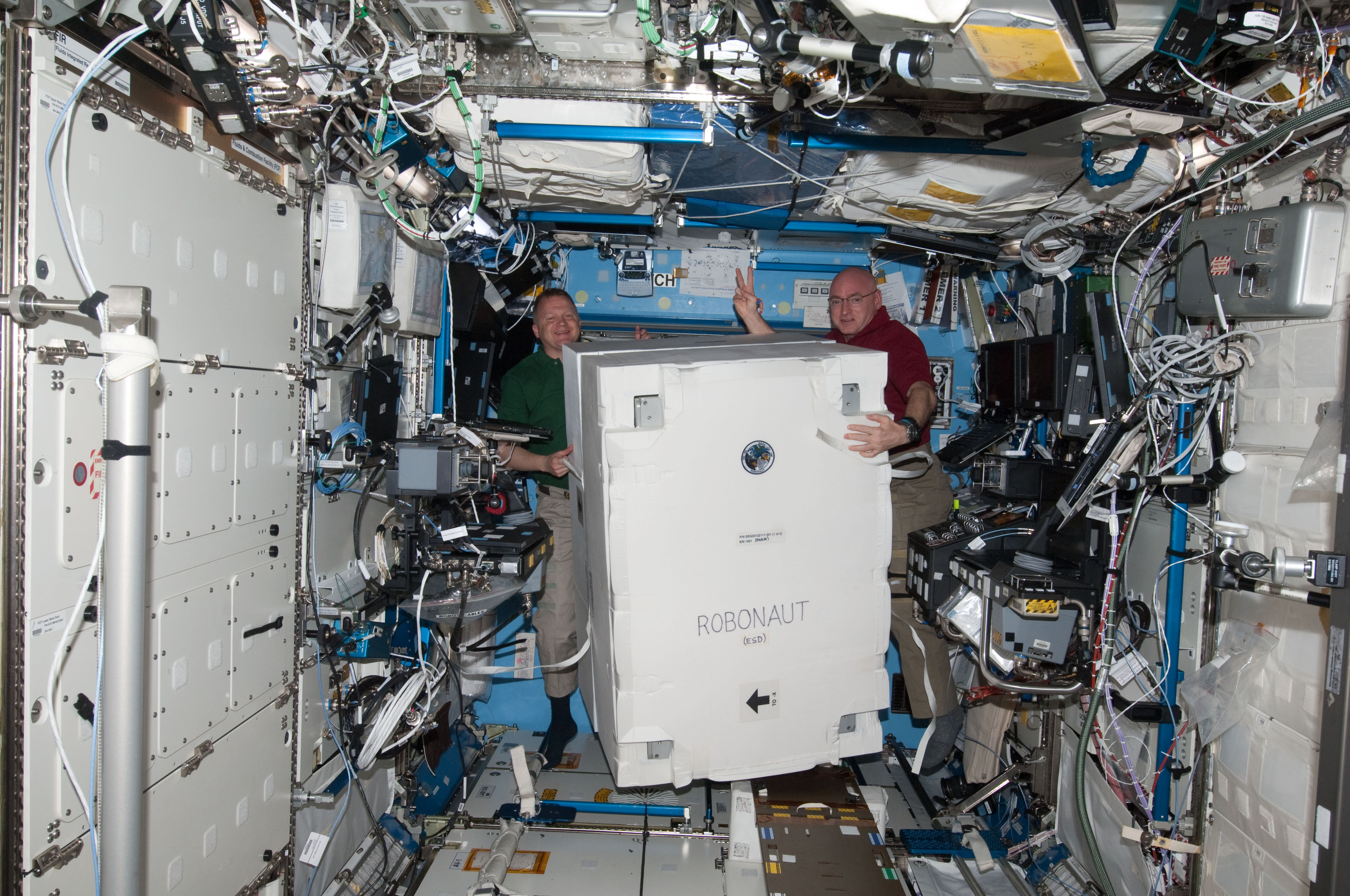 NASA astronauts Eric Boe (left), STS-133 pilot; and Scott Kelly, Expedition 26 commander, move the Robonaut2 container in the Destiny laboratory of the International Space Station while space shuttle Discovery remains docked with the station.